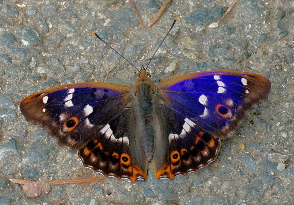 Buterflie, Purple lesser Emperor